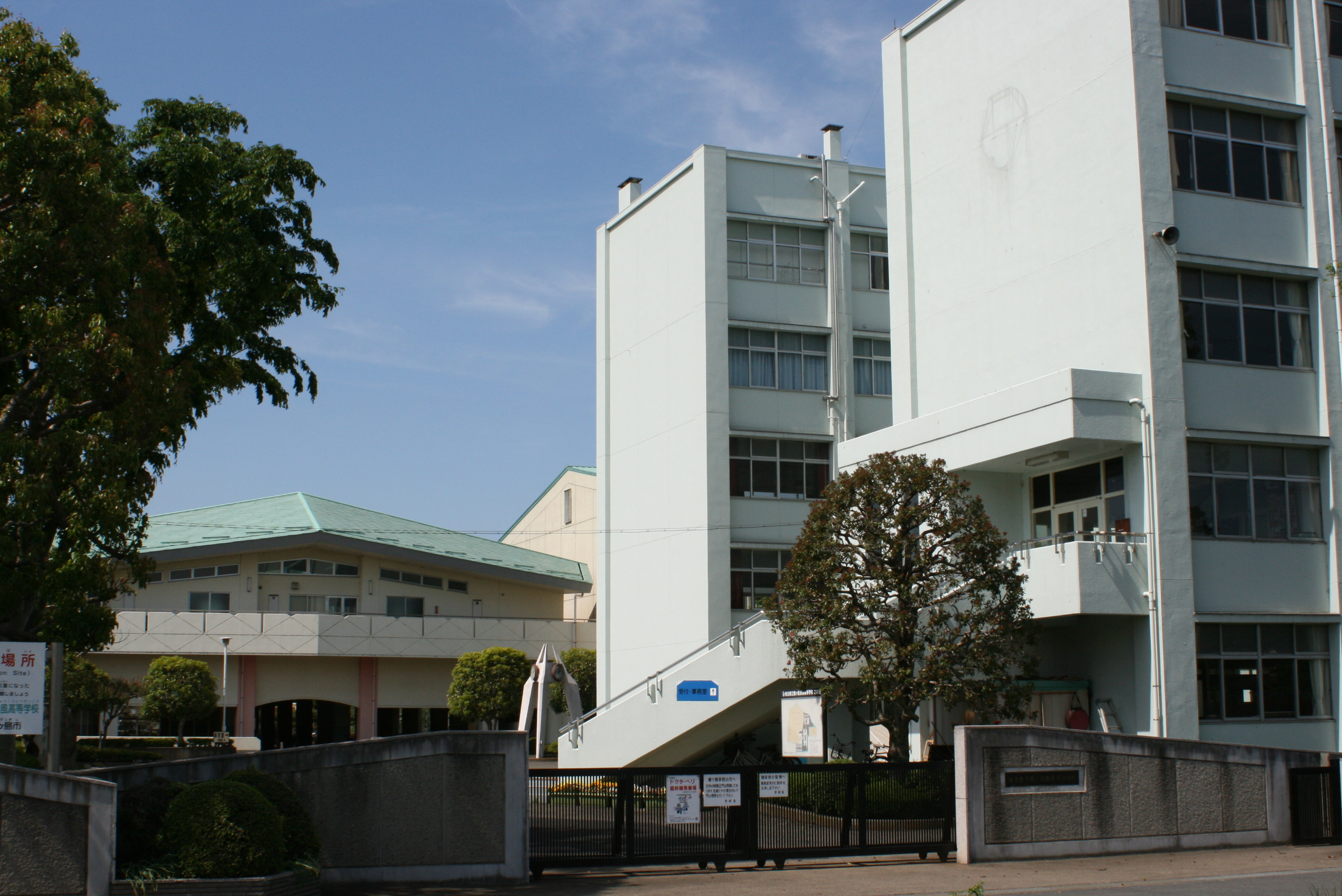 Saitama prefectural Tsurugashima Seifu high school